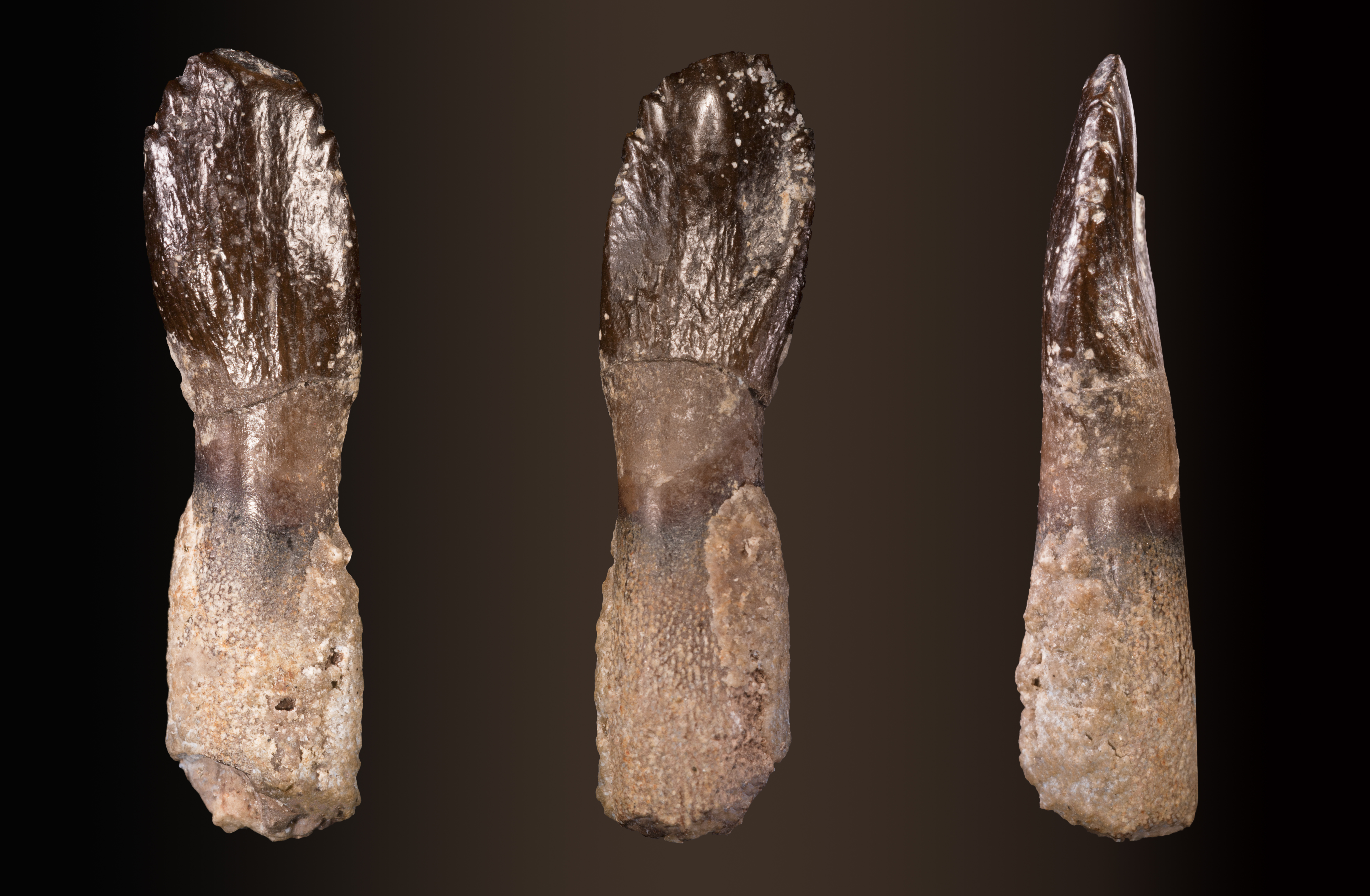 Archaeodontosaurus descouensi Tooth - multiple views of the same specimen Locality : Ambondromamy, Majunga Basin, northwestern Madagascar - Isalo IIIb Formation, Bathonian (Middle Jurassic) - Size 26x6.8x2.8 mm.